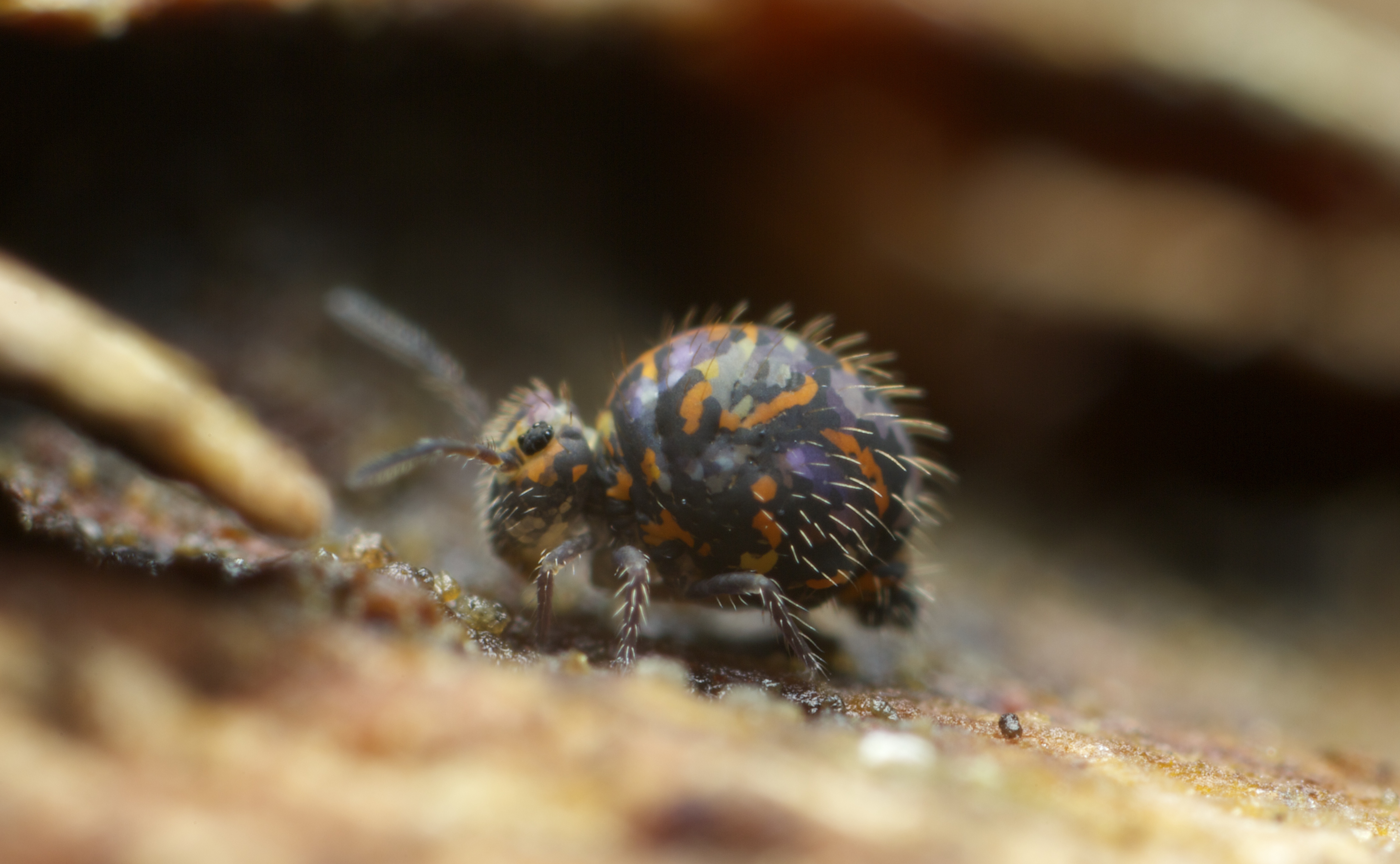 Katianna sp. Original description on Flickr: Well, I've got internet briefly as I'm at Melbourne airport so I'm taking the opportunity to post this chap at least. This was taken in Montagu in the NW of Tasmania while staying with some friends there. A spectacularly patterned springtail! Edit- went and deleted all the explore favourite stars by accident... V annoying... Don't even know what I did, they just disappeared... They're very pleased to have such a cool looking springtail in their bush and because of the crazy amount of colours, we've been calling it the Montagu Party Springtail. The Katianna genus of springtails are notoriously difficult to ID and sadly, this one is stuck with just a genus. There's so many new ones out there and little funding or interest to pay for taxonomy so the future isn't looking good in Australia and NZ for Collembola ID. I've already found some new species, including a new Adelphoderia in Tasmania, doubling the species, though it's unlikely it'll ever get written up. I'll post up the photos when I have the chance.